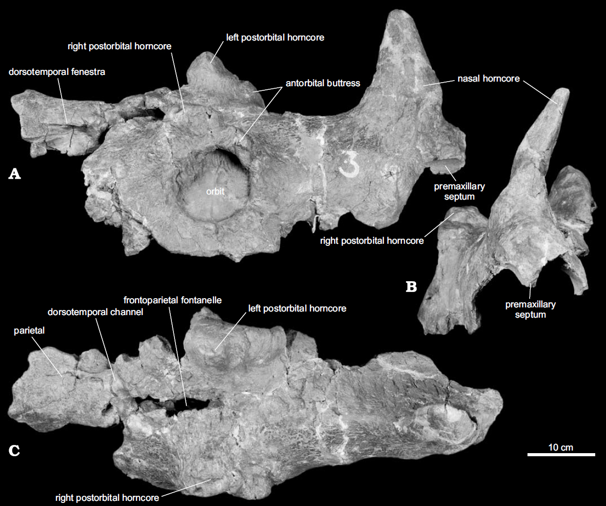 Partial skull of the centrosaurine ceratopsid Spinops sternbergorum gen. et sp. nov. from the Campanian of Dinosaur Provincial Park, southern Al− berta, NHMUK R16306; in right lateral (A), rostral (B), and dorsal (C) views.